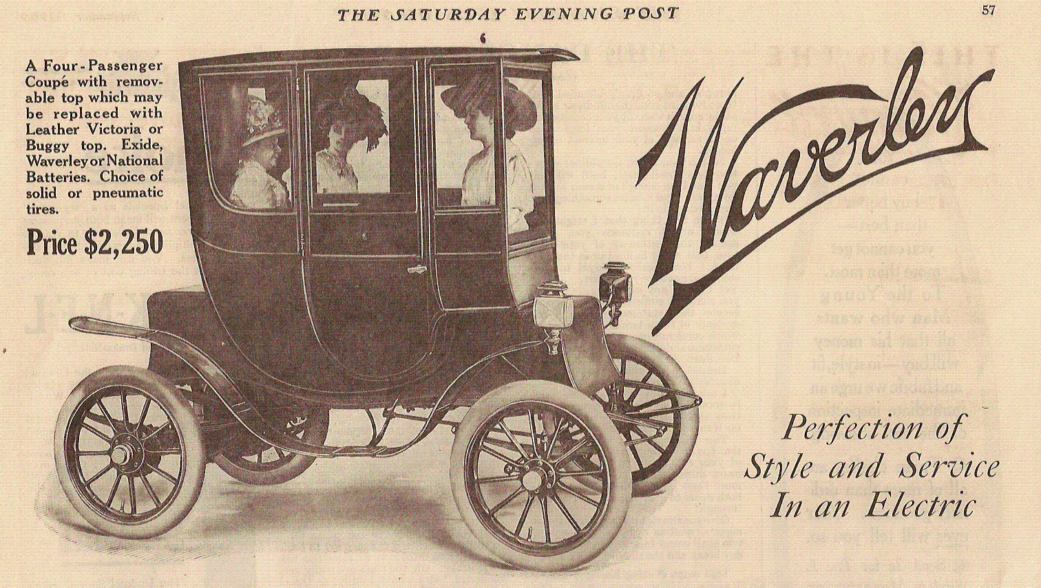 This scan is from a 1910 edition of The Saturday Evening Post. It is part of an ad for the Waverley Electric car.